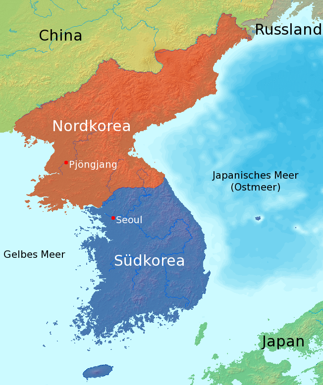 Map of the devided Korea with German labels